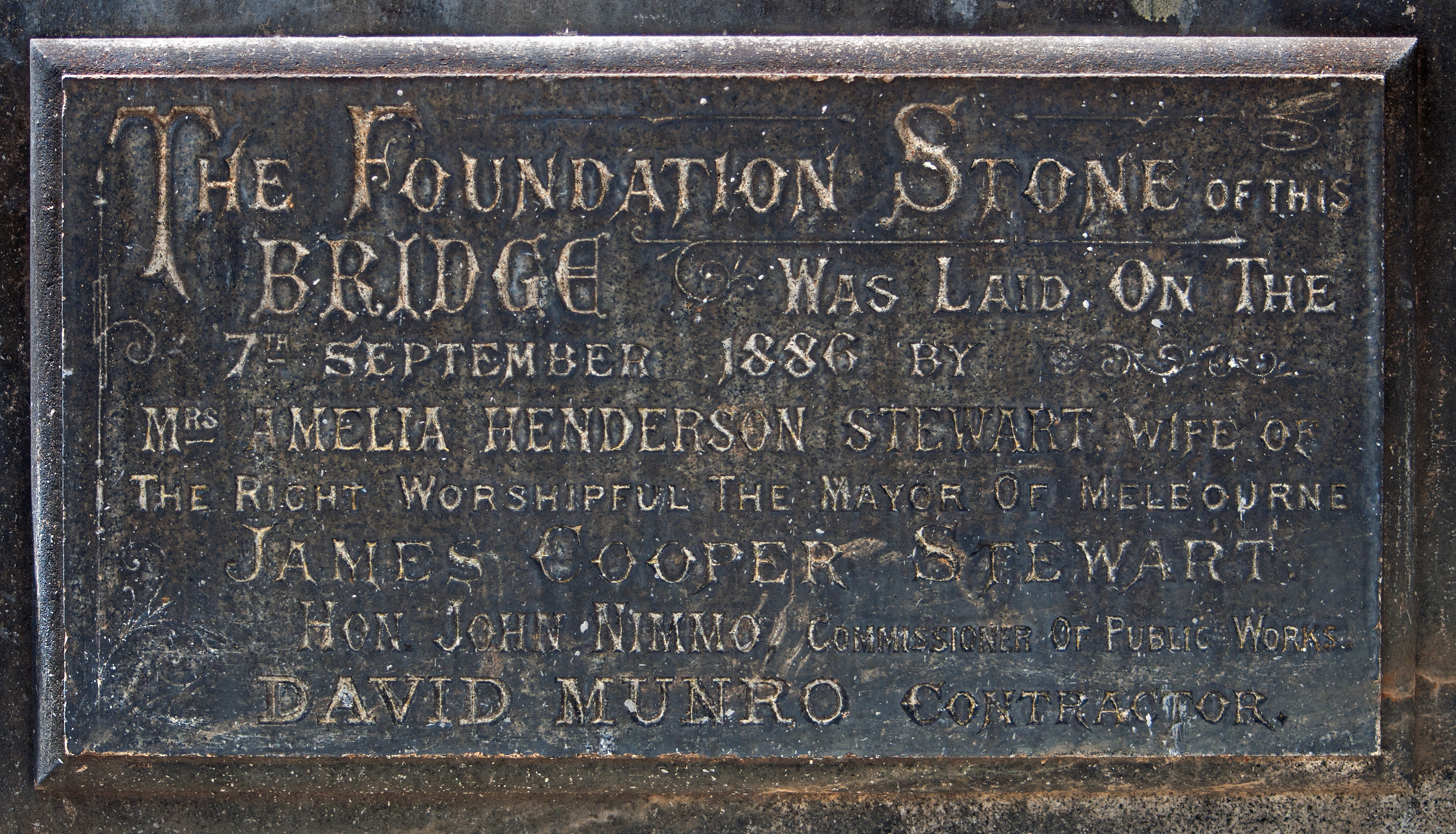 The foundation stone of Princes Bridge, Melbourne, Australia.